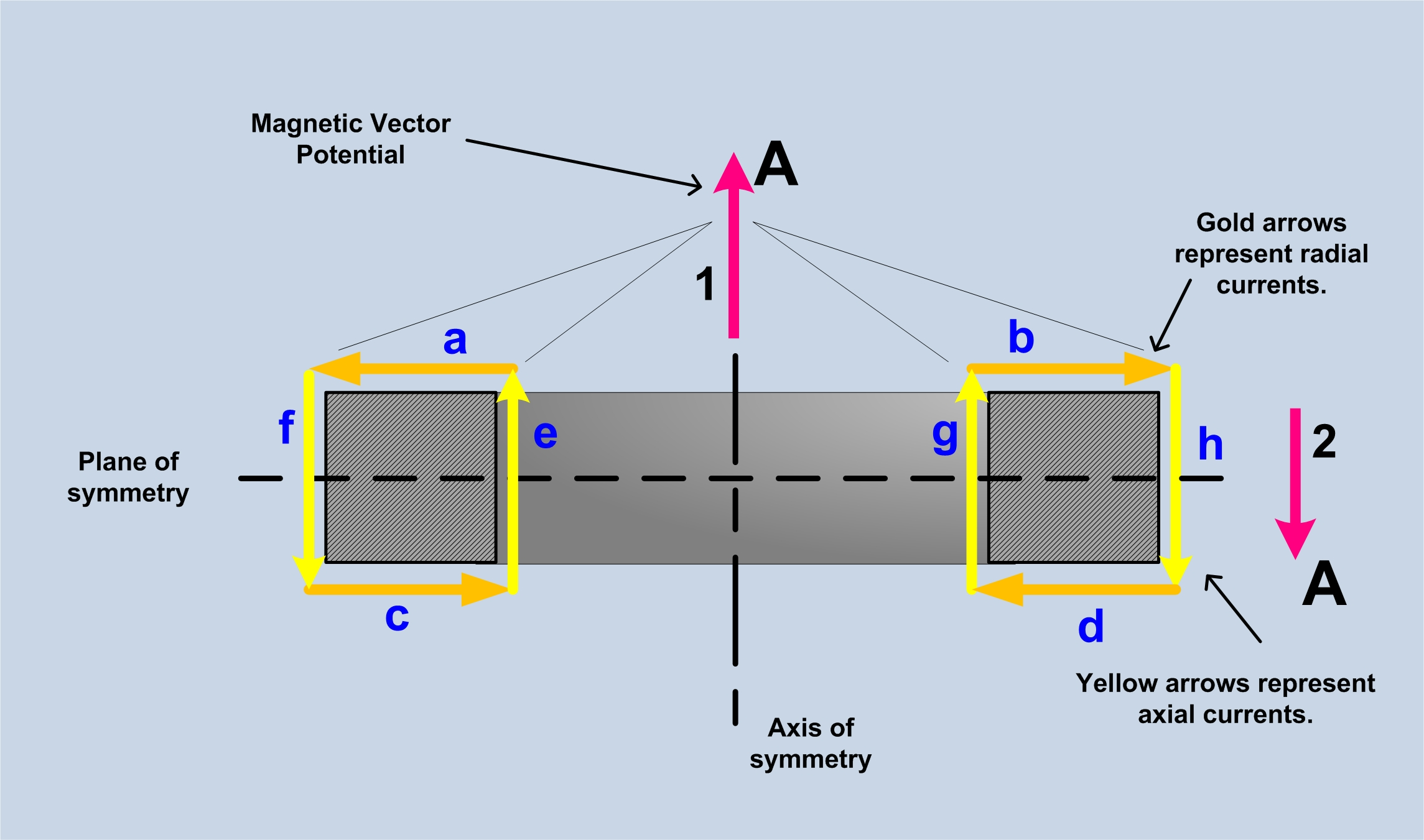 A depiction of the Magnetic Vector Potential of a Symmetric toroidal Inductor